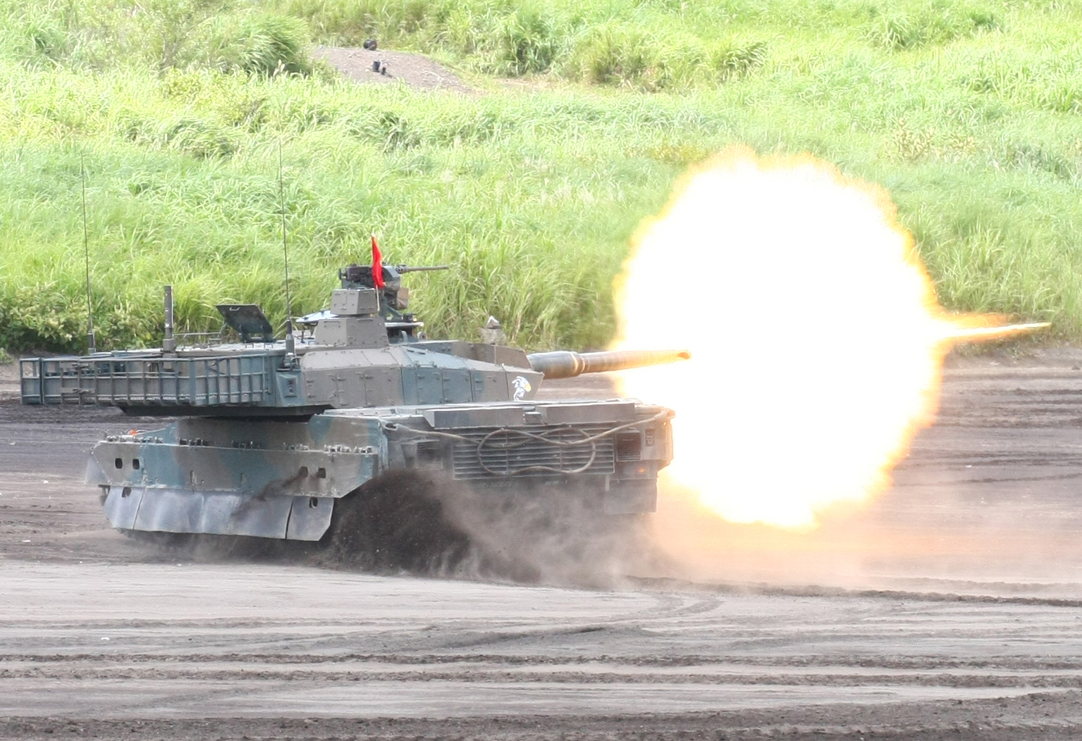 Title 1D-IS-7 (富士総合火力演習「撃」).jpg Album 富士総合火力演習・そうかえん 前段演習・戦車火力（１０式戦車・スラローム射撃） ja:10式戦車